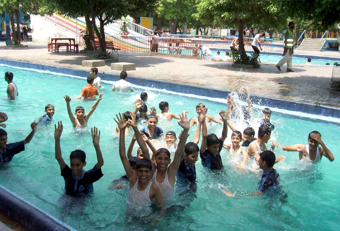 Licensing Policy about Wikipedia This is to clarify that all contents and images of this website can be used with reference of this website on Wikipedia under the free license: Creative Commons Attribution-Share Alike 4.0 International.